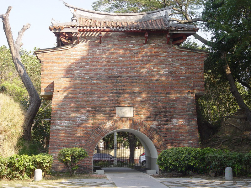 Little West Gate of Tainan